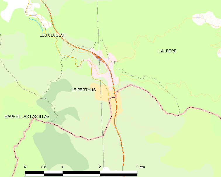 Map of French municipality